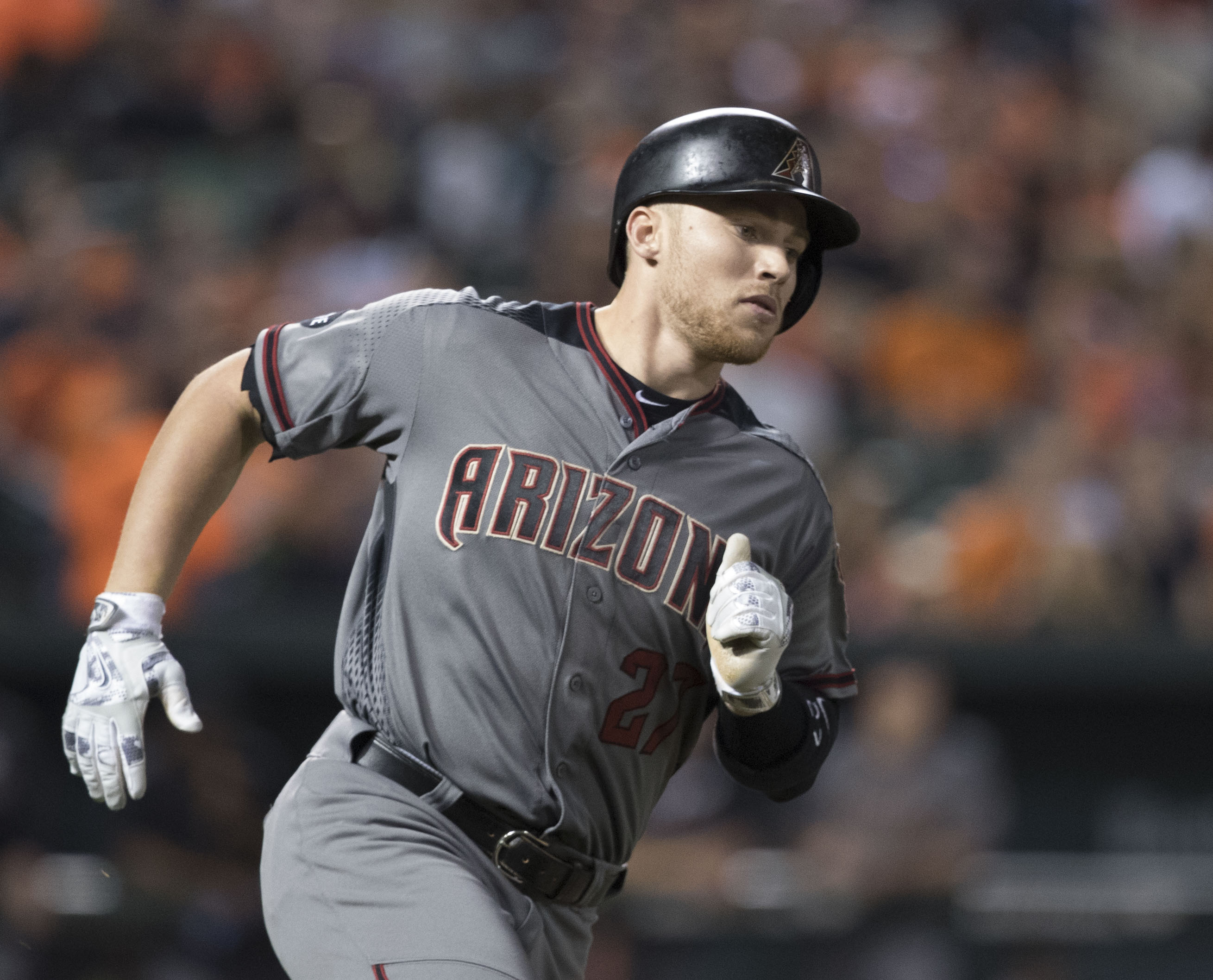 Diamondbacks at Orioles 9/24/16